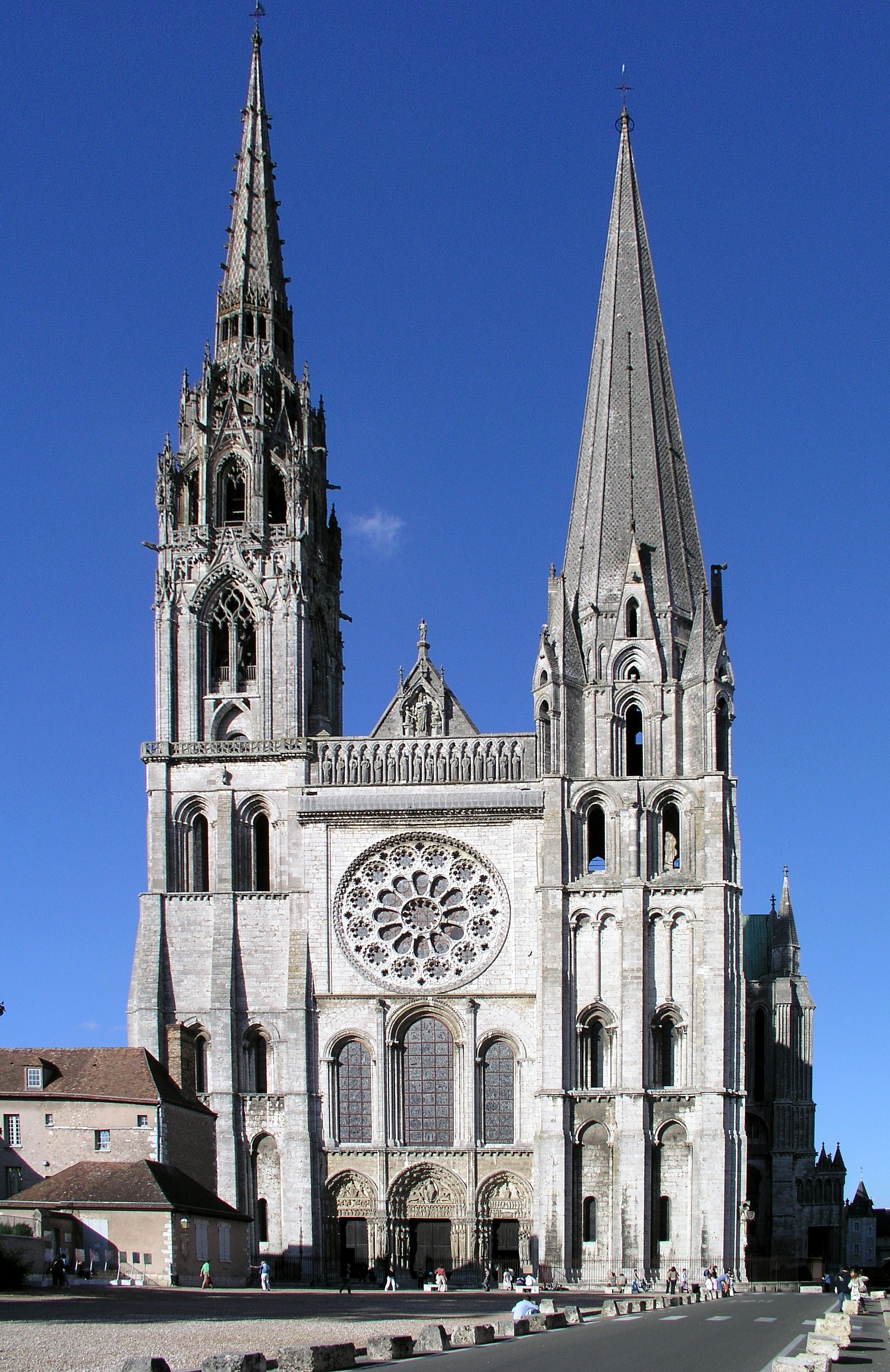 west facade